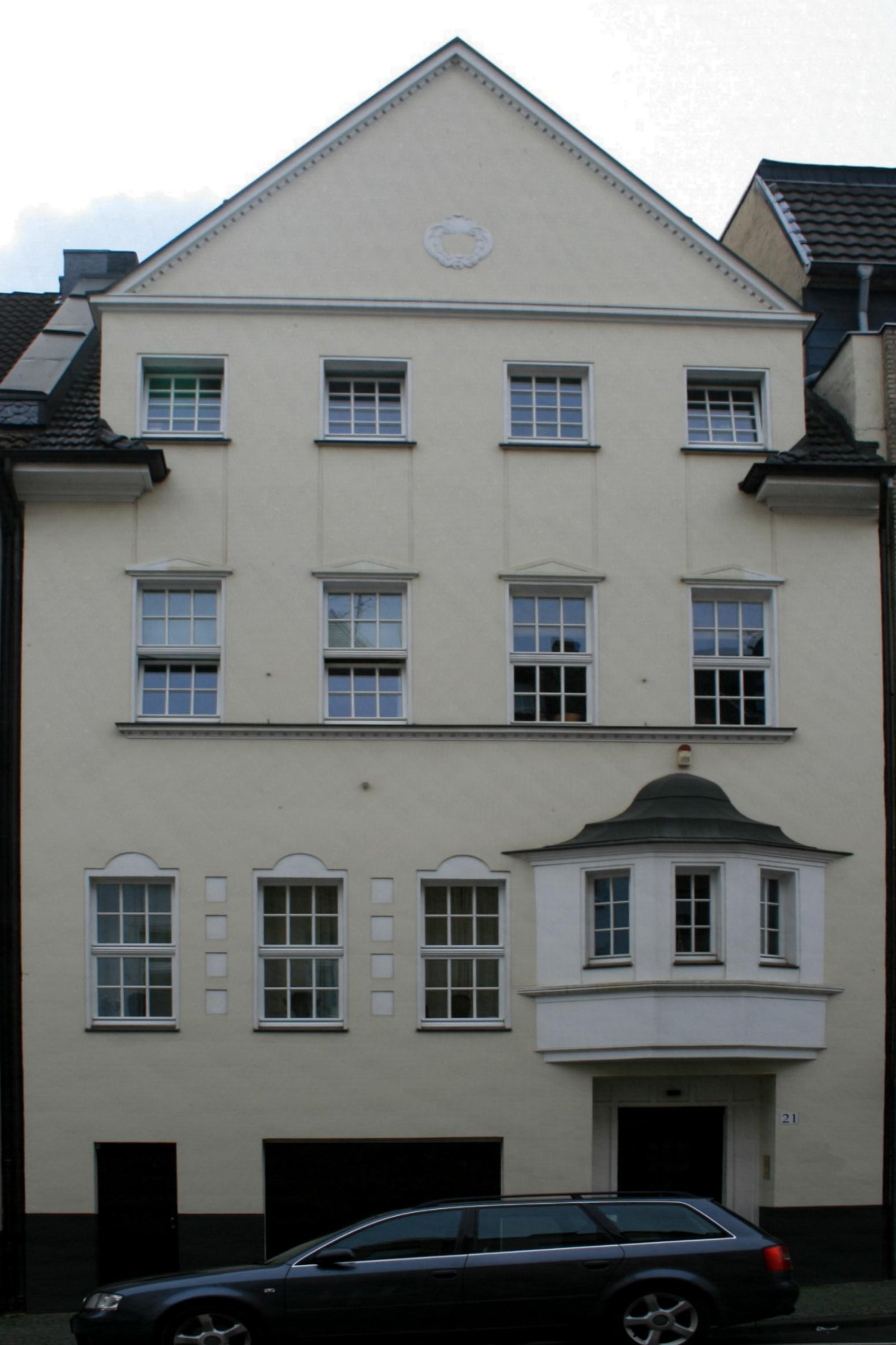 Cultural heritage monument No. N 018 in Mönchengladbach